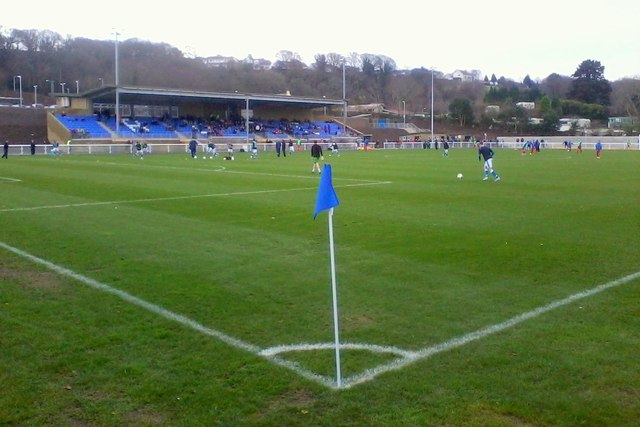 Nantporth Stadium, Bangor, Wales